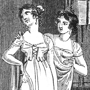 Cropped version of